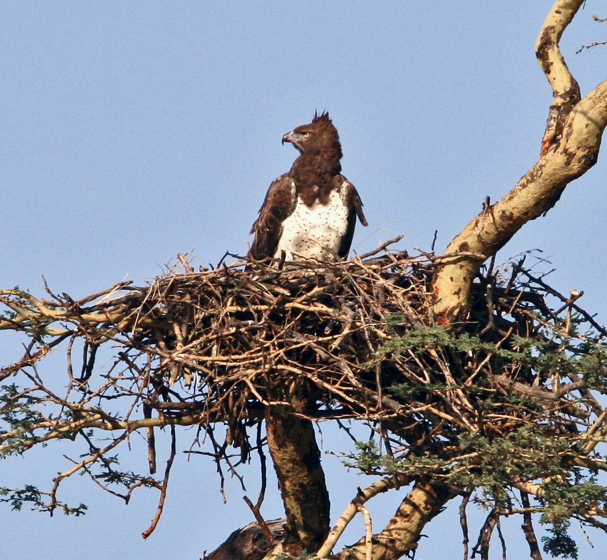 Martial Eagle (Polemaetus bellicosus), picture taken at Serengeti Nationalpark, Tanzania